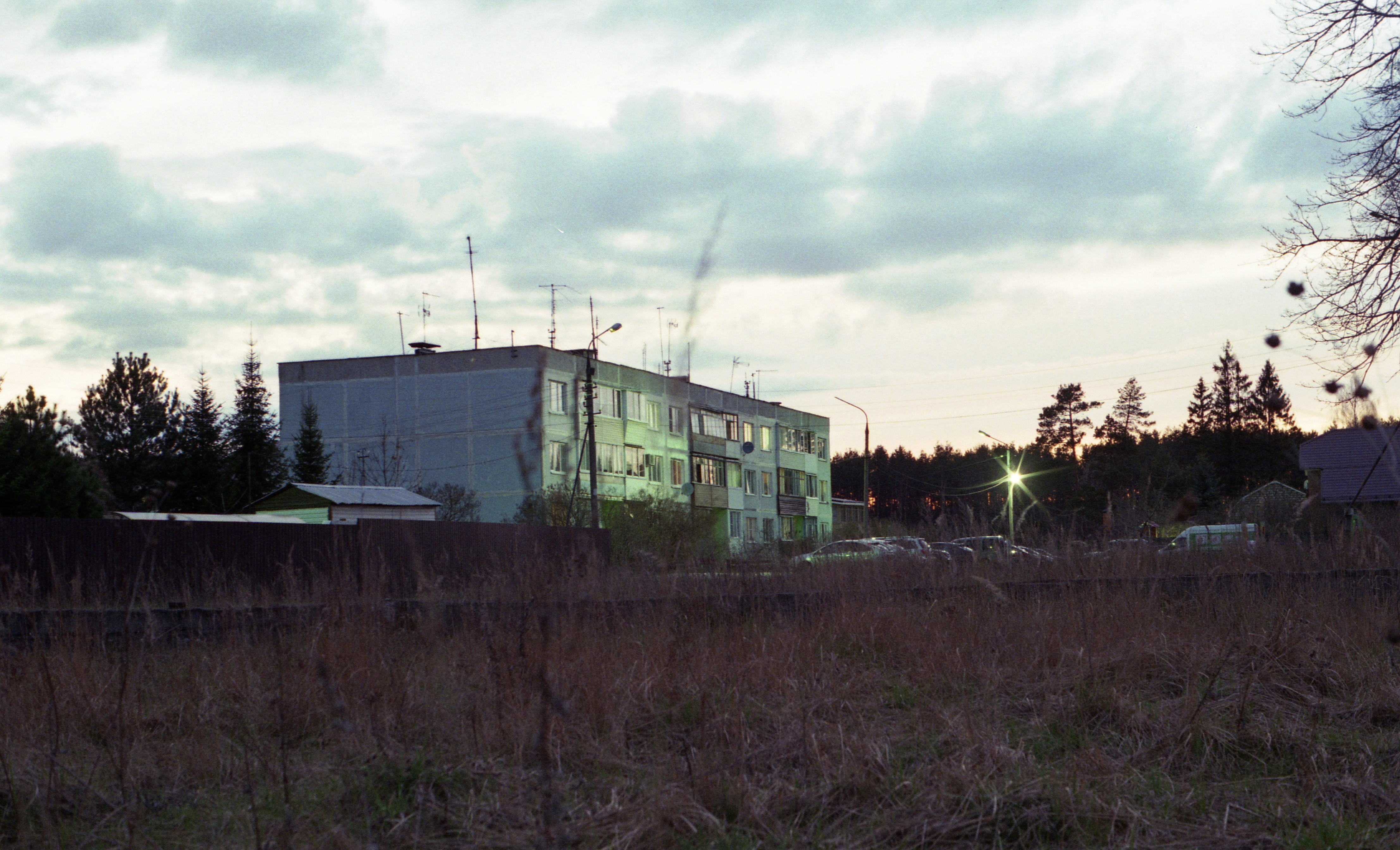 Fuji Industrial 100 Ricoh KR-10X